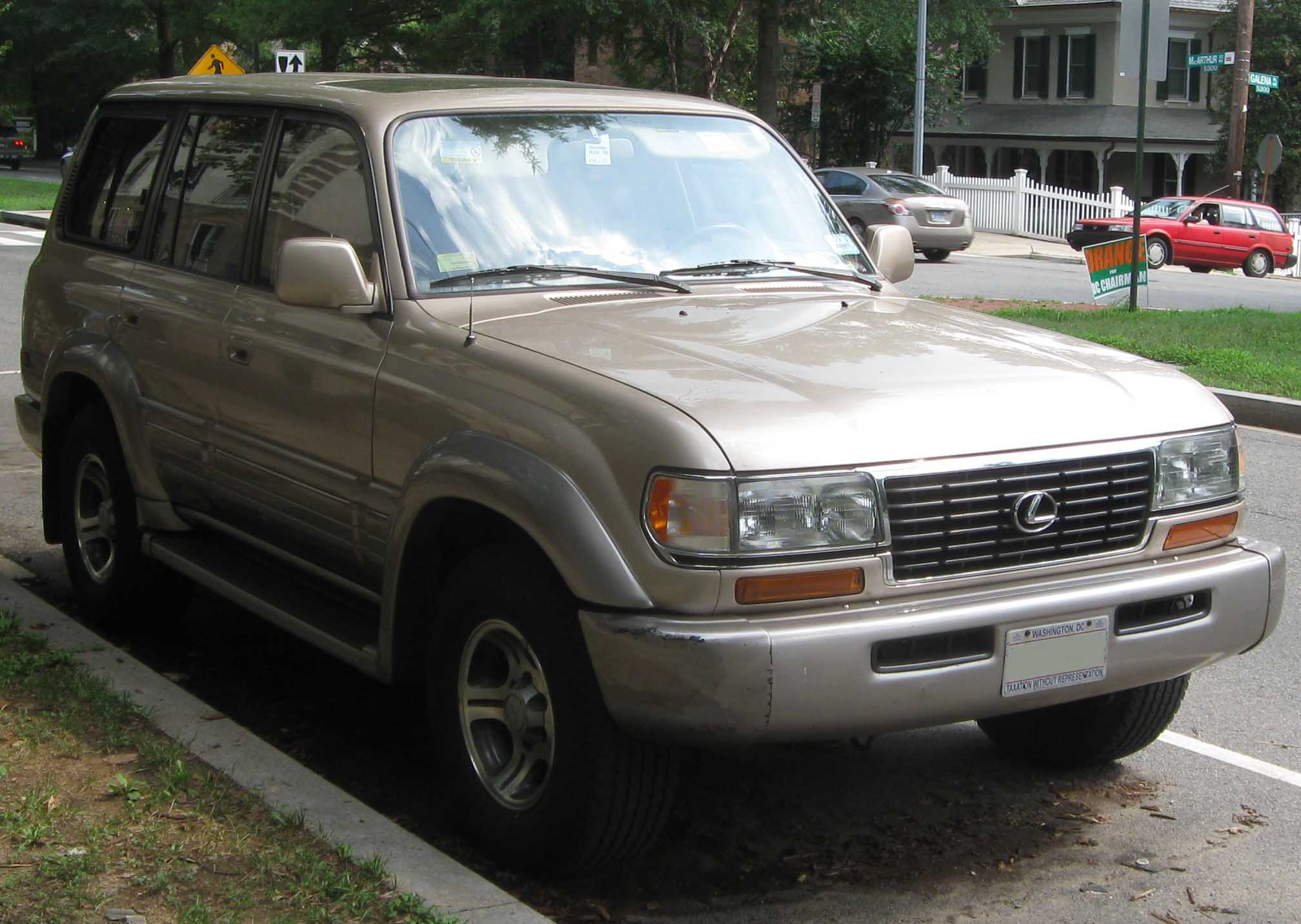 1996-1997 Lexus LX450 photographed in Washington, D.C., USA.